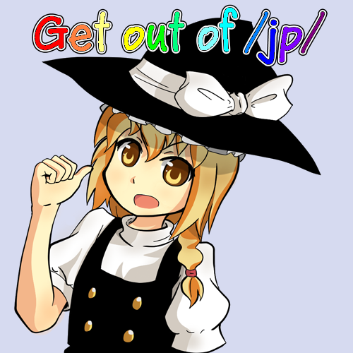 Image details the artist's personal interpretation of the visual likelihood of Marisa Kirisame, with an outward-pointing thumb gesture, telling the reader to "Get out of /jp/". This image is a commonly reposted image on the /jp/ (Otaku Culture) board on 4chan. Original content created by an Anonymous poster (later attributed as Sai) on 4chan's /jp/ "Japan/General" (formerly; now "Otaku Culture") board. The image was first posted Mon Mar 02 06:58:48 2009, with the original filename of "marisa_get_out.png" and post number No.2168586.